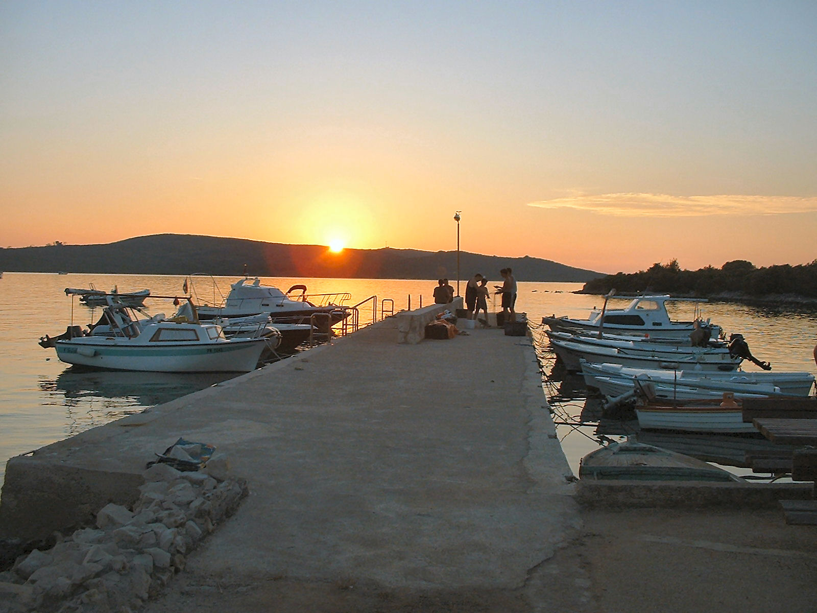 Muline hamlet, settlement Ugljan.